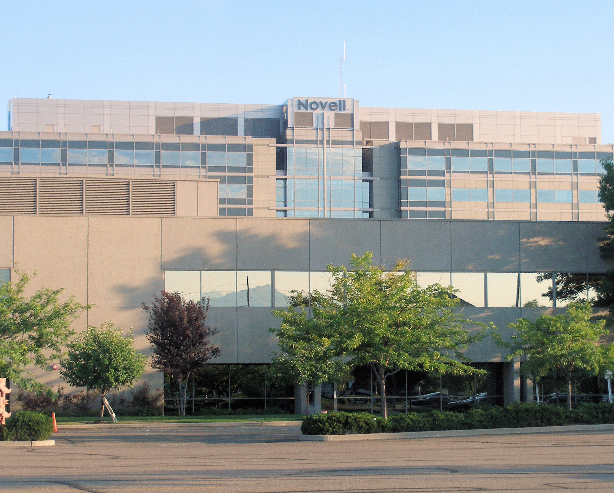 Former Novell headquarters in Provo, Utah. Known as the Novell Tower, it was located at 1800 South Novell Place, inside the East Bay Business Park, where several other Novell buildings used to stand. The building is now owned by Novell's parent company, Micro Focus. See Category:Micro Focus headquarters in Provo, Utah.